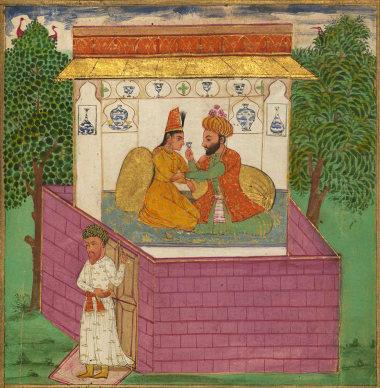 A shoemaker and the unfaithful wife of a Sufi are surprised by her husband's unexpected return home.